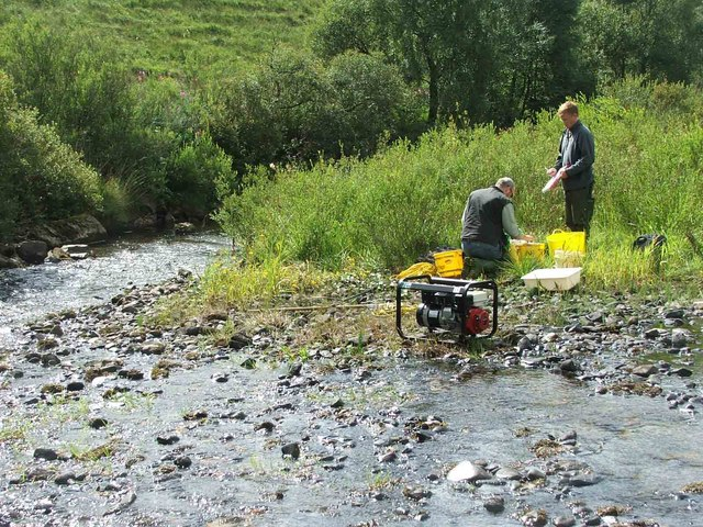 Fishery Biologists at Work. Research work into spawning of Salmonid species on the Glenmuir Water. Since these photographs were taken, an Open Cast Coal Site has been developed only a stone's throw away from this location. By ongoing monitoring of this water course, these scientists will be able to determine the level of pollution and its impact on fish stocks and spawning success should any arise from the mineral extraction. The aim is to identify any problems and resolve these issues before any significant damage occurs.